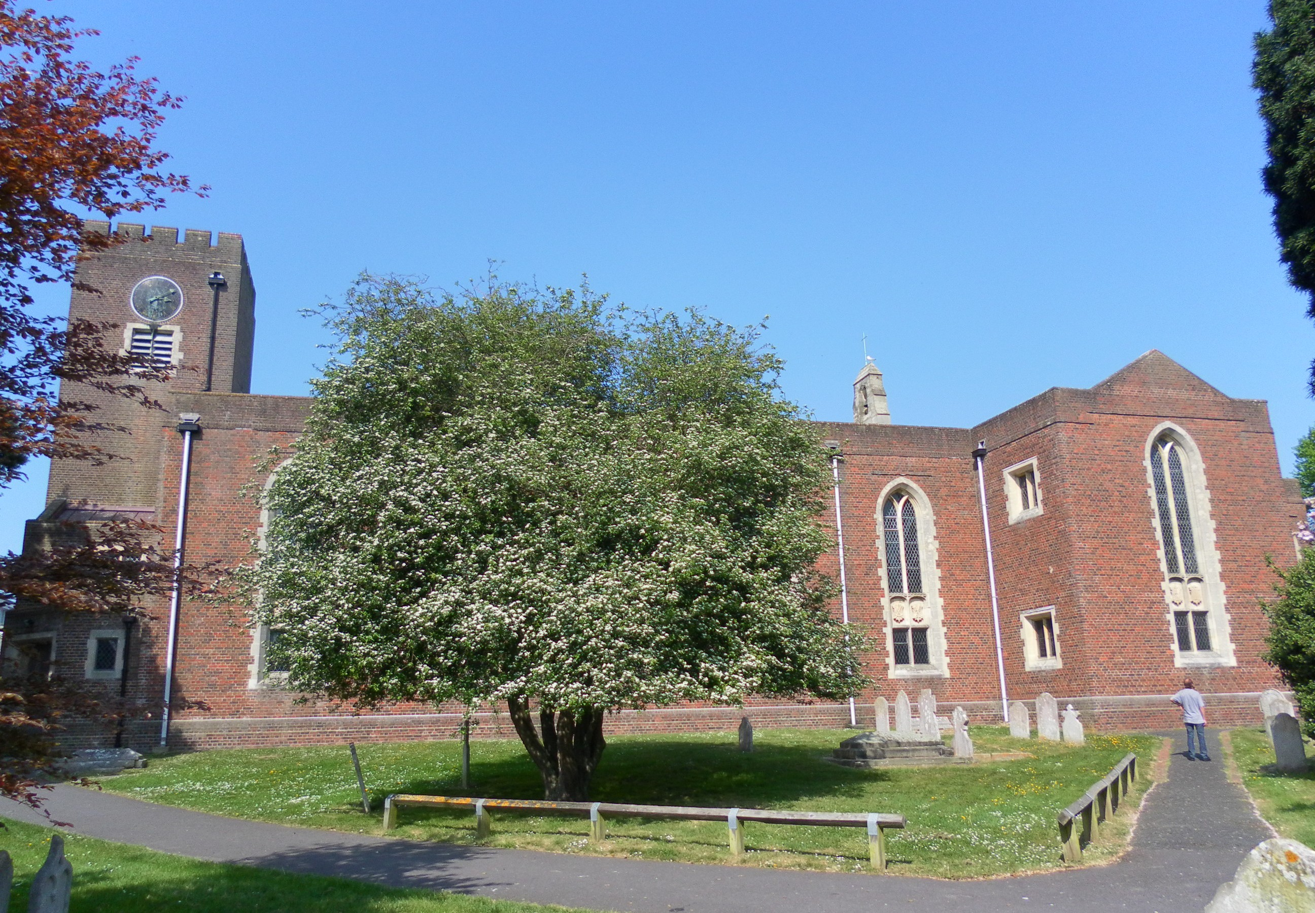 Parish church of St Mary the Virgin, Littlehampton, West Sussex, England, seen from the south